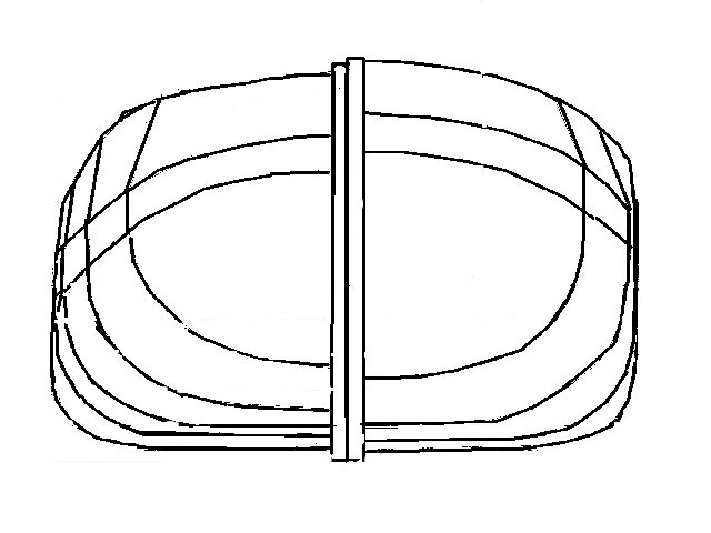 Drawing of the hull of a Tjalk (ship).